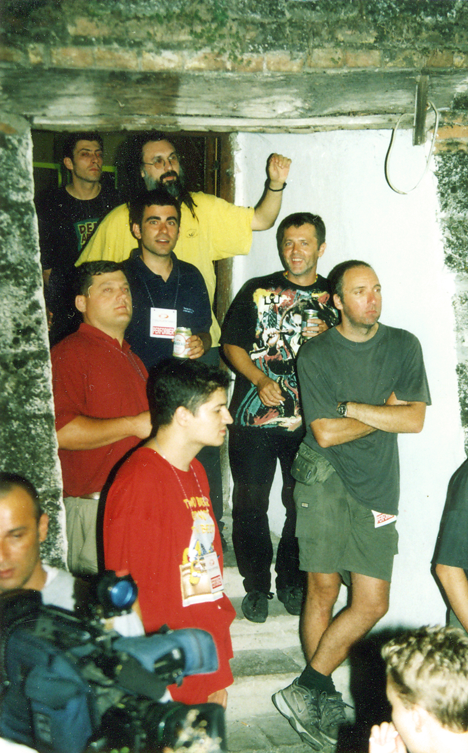 Del Arno band at the Nisomnia Music Festival in Niš, 2002